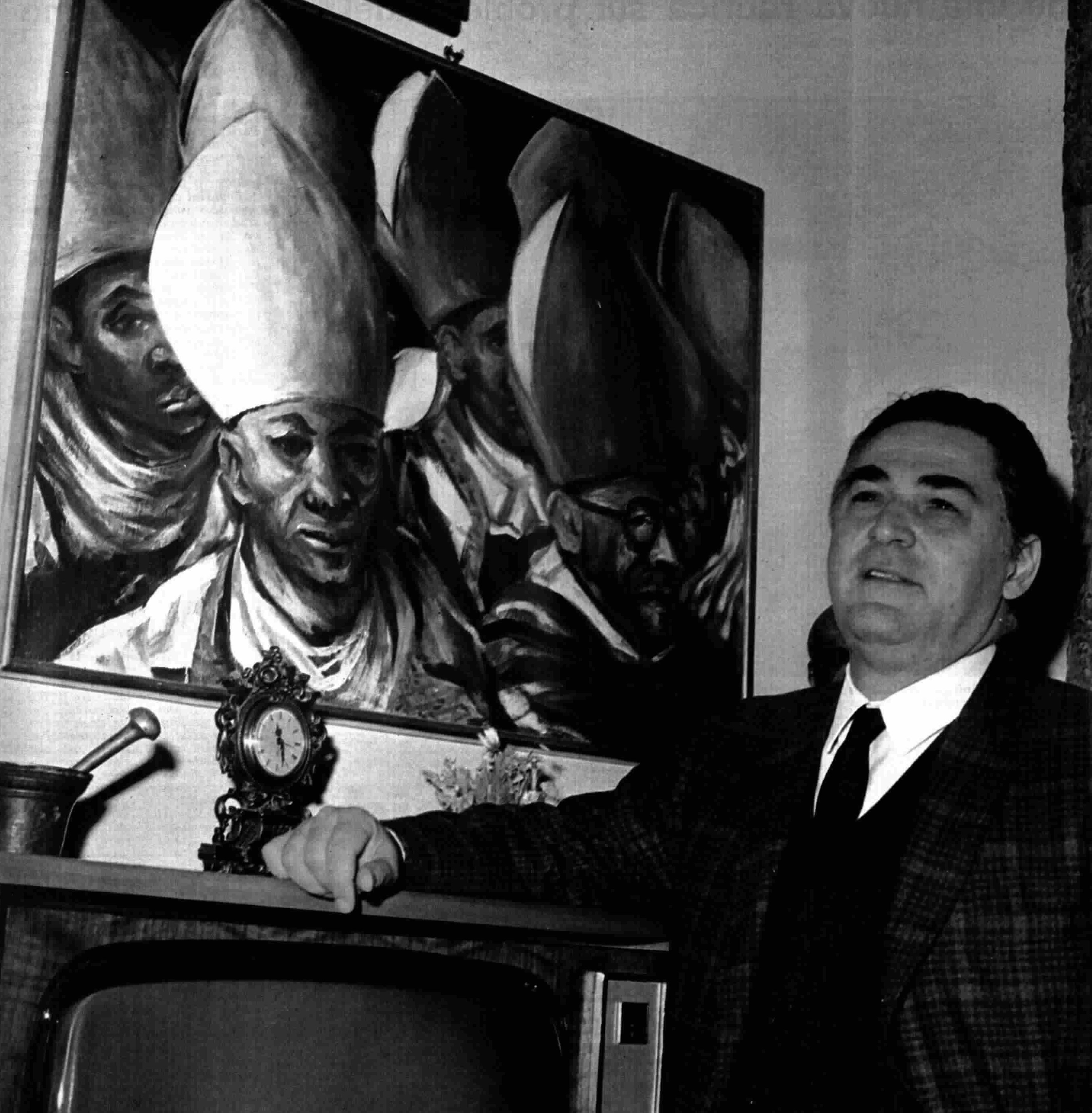 Italian painter Domenico Purificato in his house in Rome